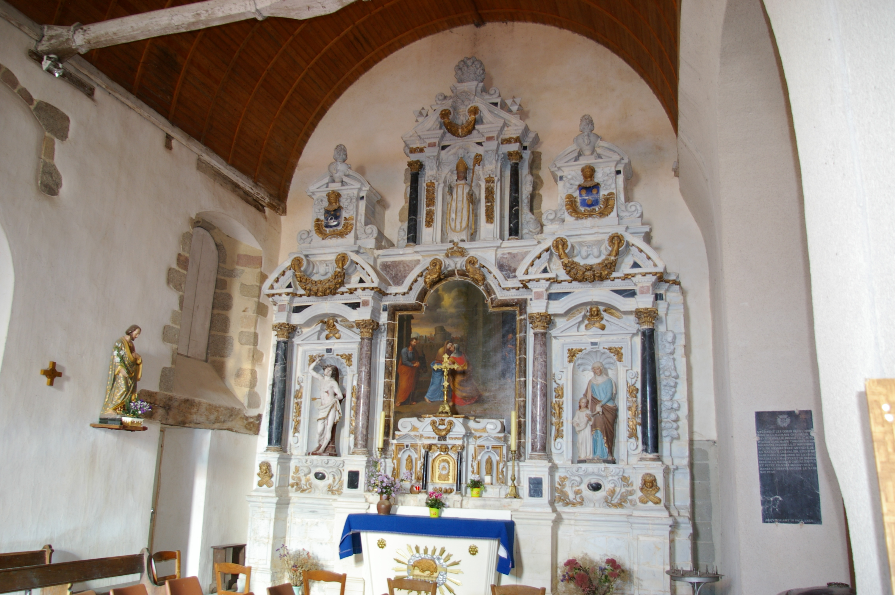 Retable St Vigor Neau